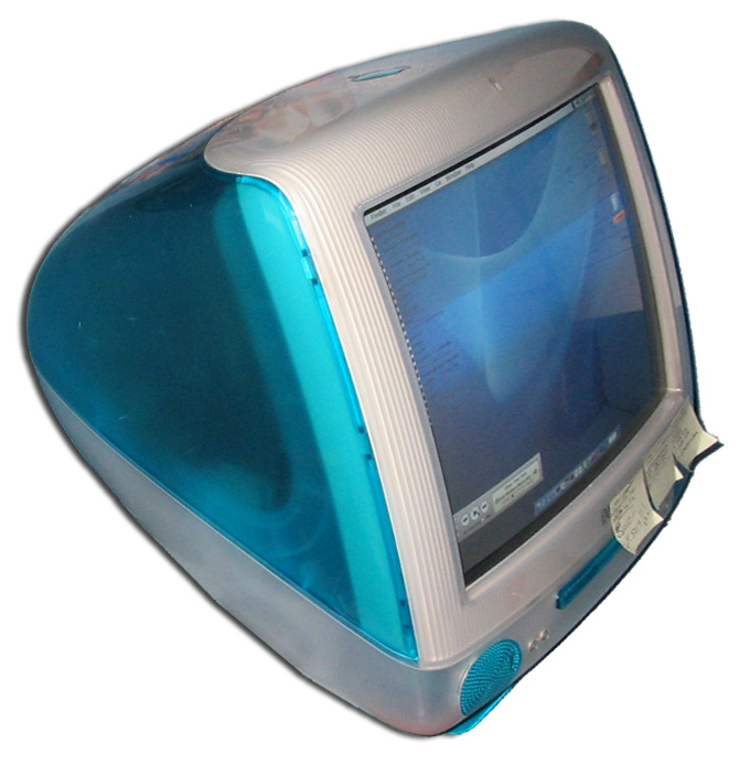 The second iMac with the slot-loading CD-ROM.